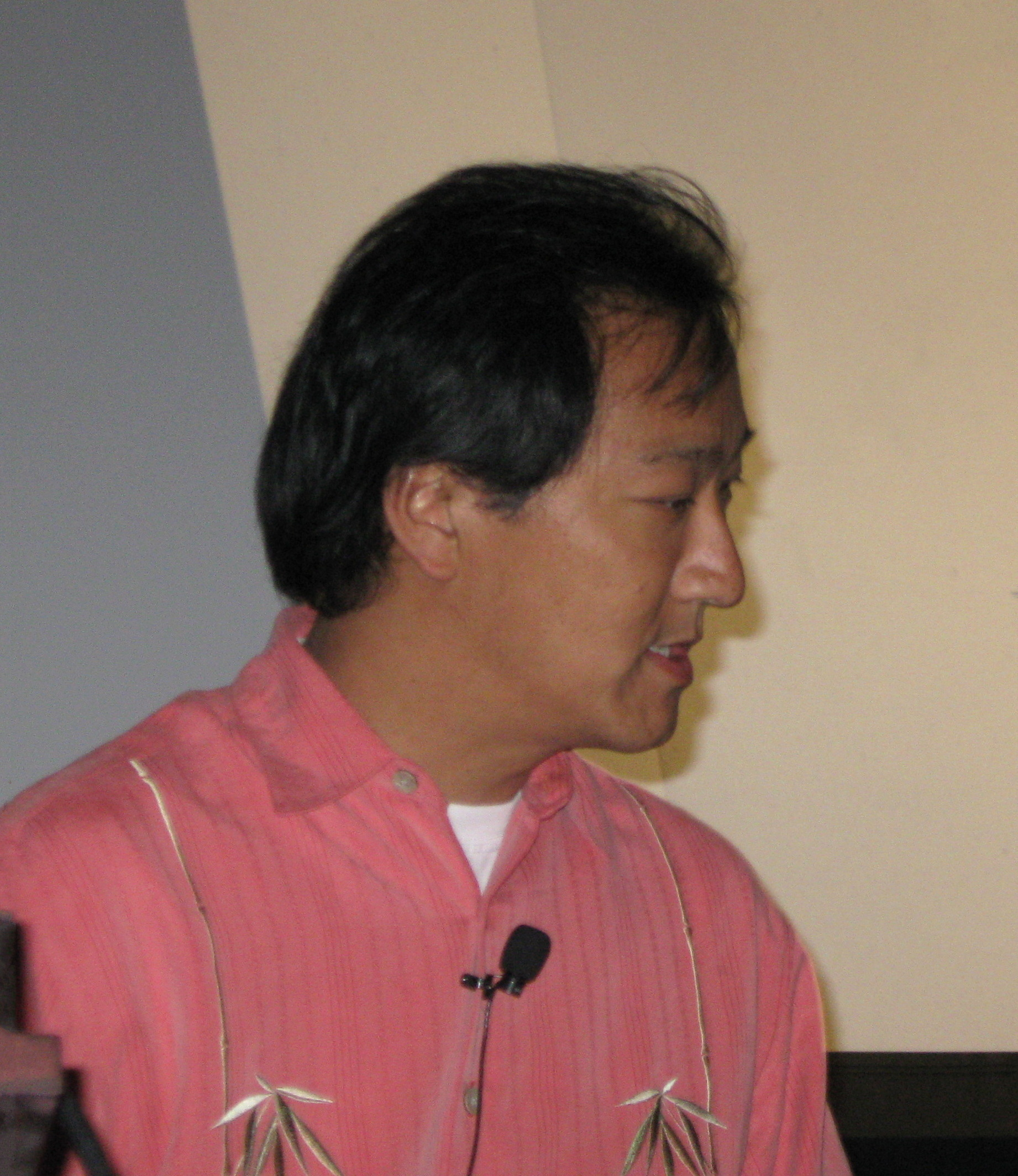 Ken Ono, professor of mathematics at University of Wisconsin - Madison. Photographed at the Joint Mathematics Meetings in Washington, DC, January 2009.